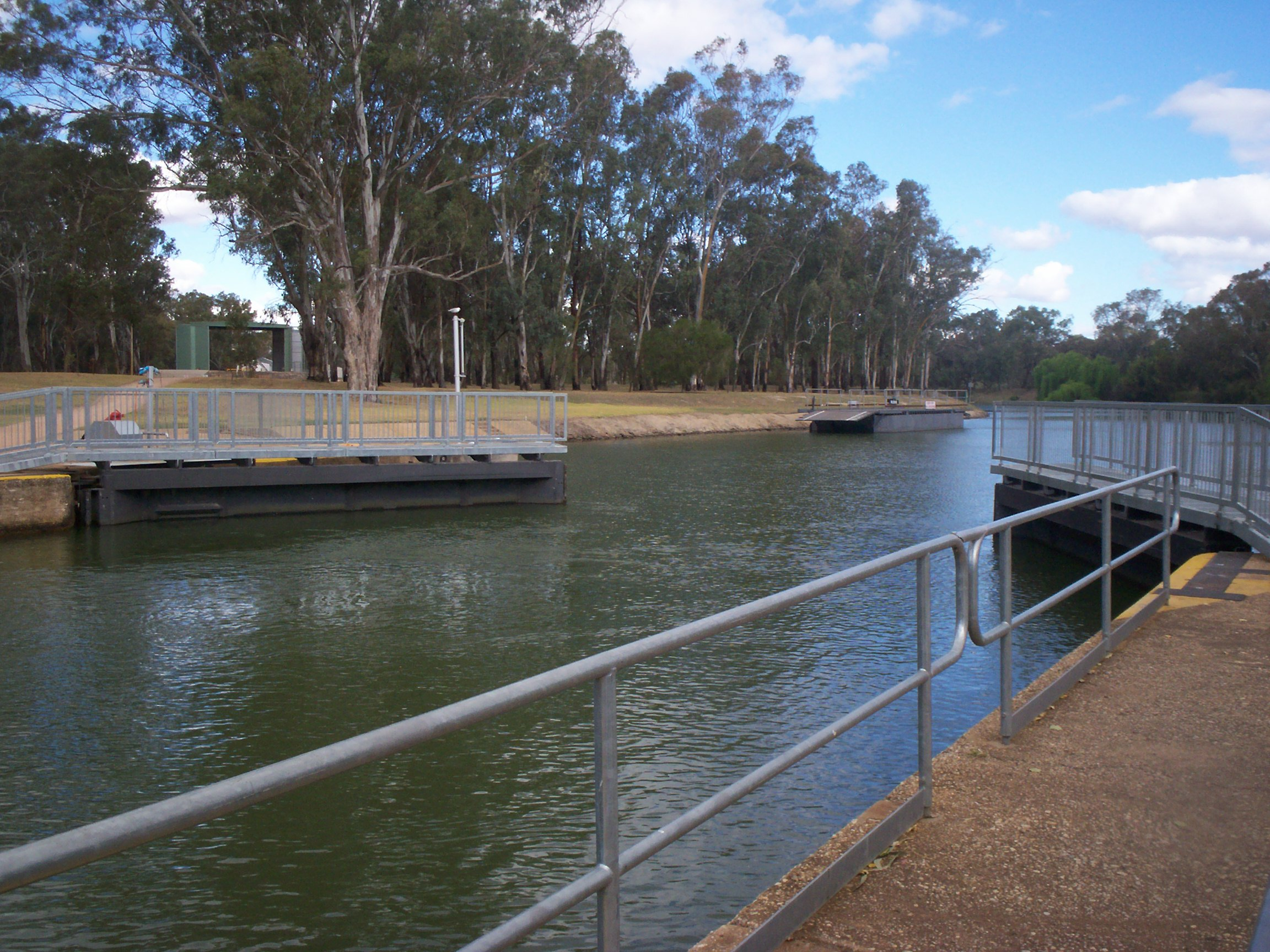 Lock 11, Mildura, Victoria, Australia.